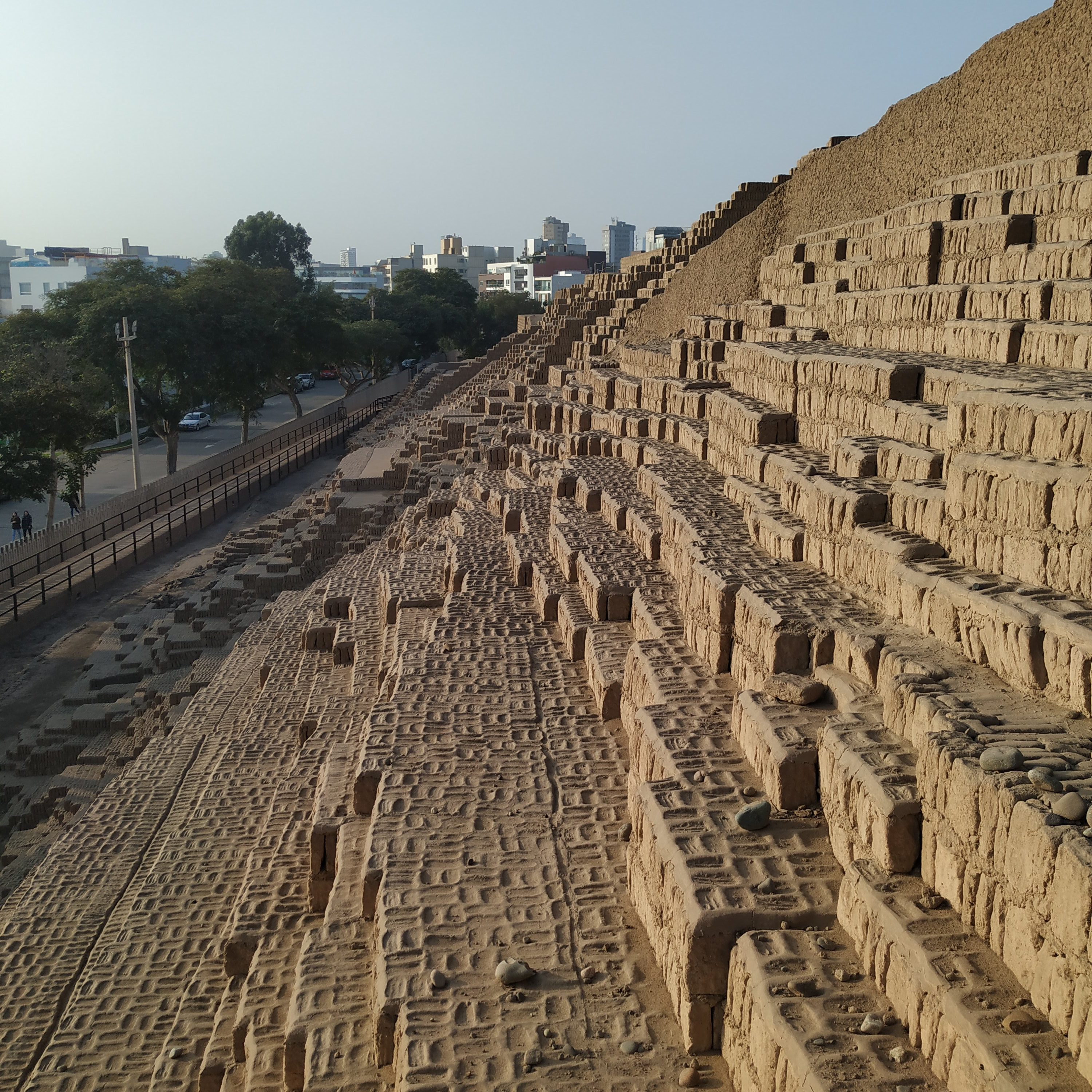 Cara oeste de la gran pirámide. Tomada en la tarde del 2 de junio del 2019.